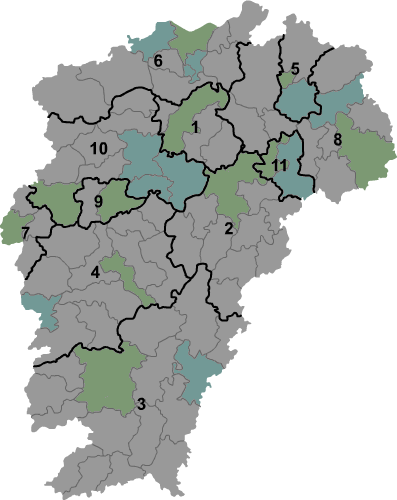 Map of prefectures of Jiangxi Province